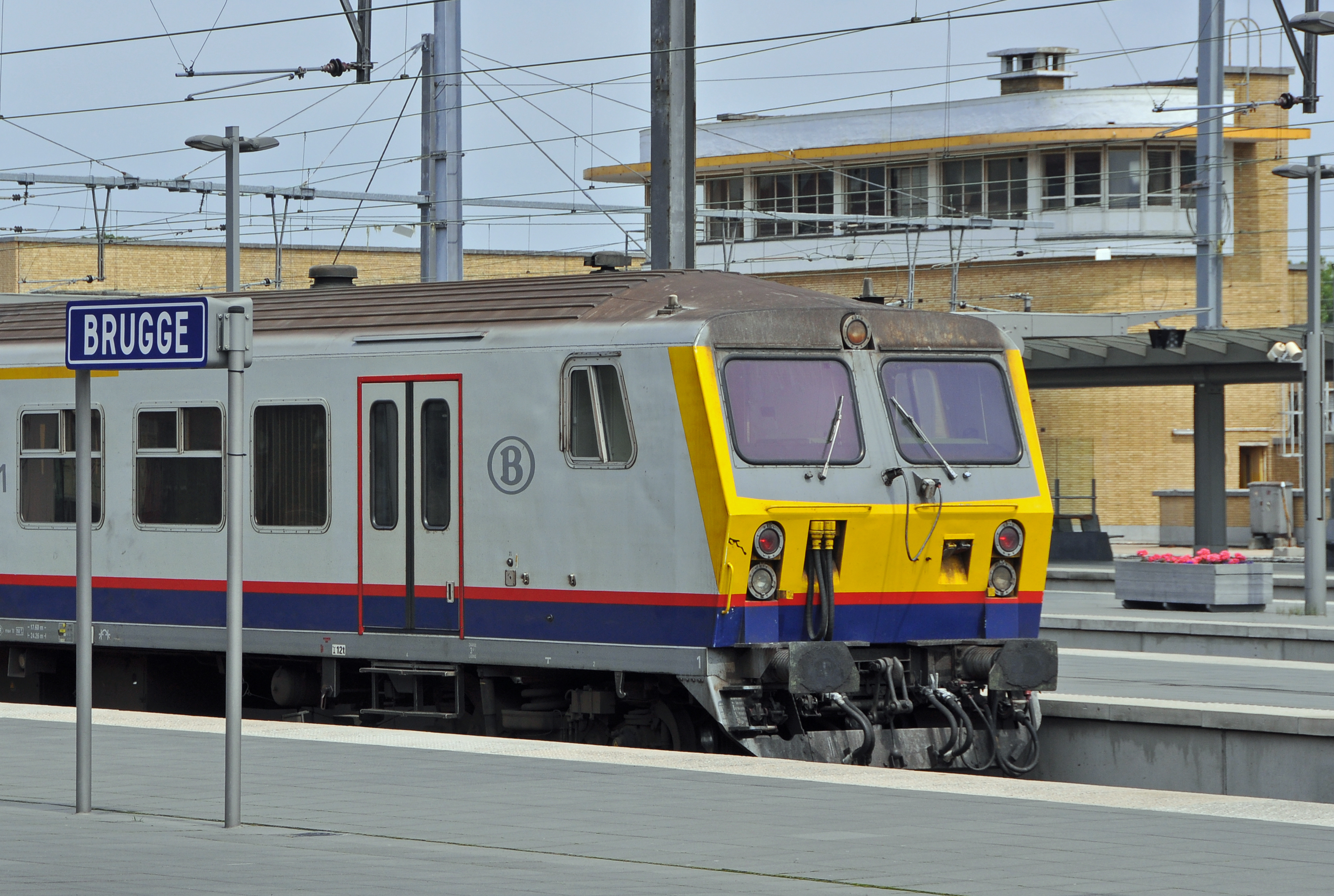 SNCB M4 Control car in Bruges train station (Belgium)